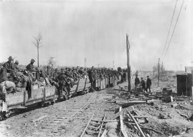 Soldiers from the Australian 4th Pioneer Battalion moving behind the lines on a train, around Warlencourt